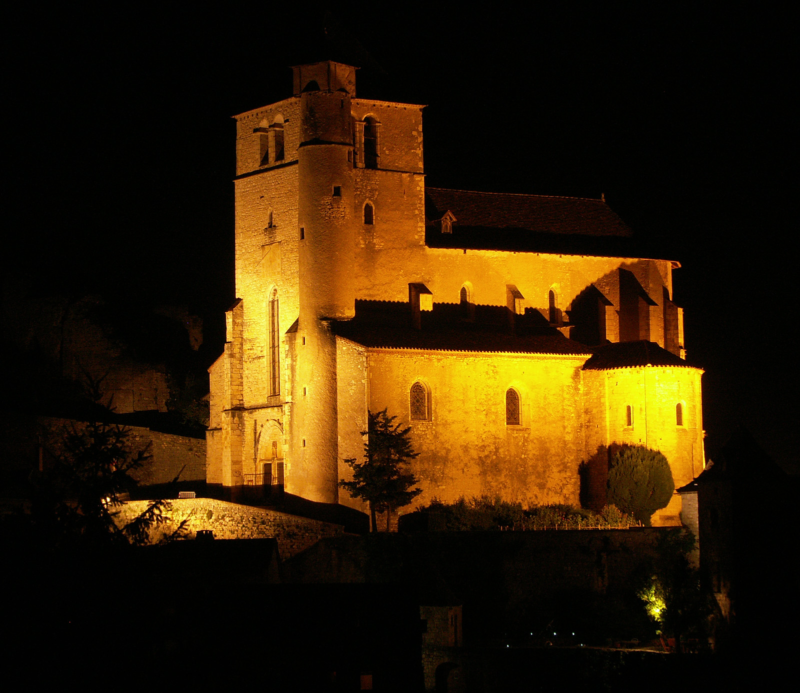 Fortified church of Saint-Cirq-Lapopie by night